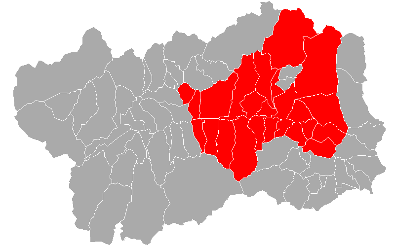 Tsan distribution in Aosta Valley according le Messager des sports 2005 - anno VI